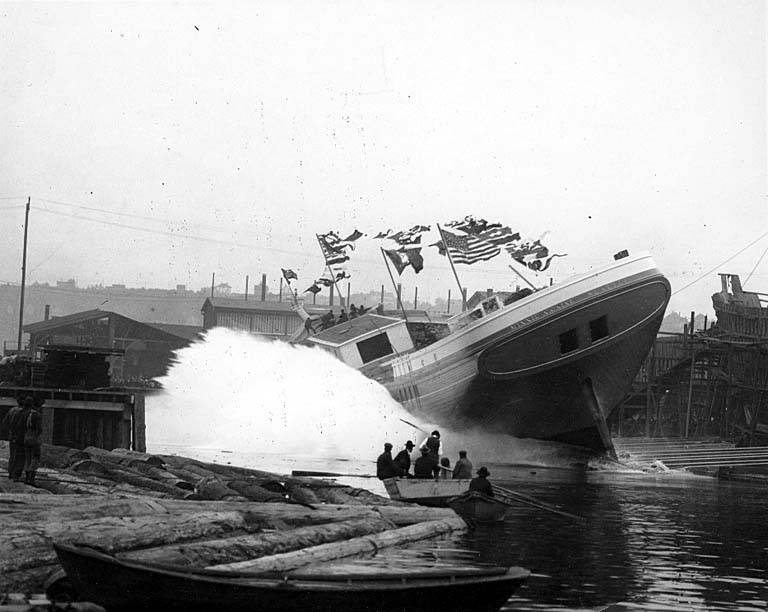 On verso of image: Launching of Sch. Minnie A. Caine at Morans Shipyard, Oct. 6th, 1900 at 2 p.m. Subjects (LCSH): Minnie A. Caine (Schooner); Schooners--Washington (State)--Seattle; Launchings--Washington (State)--Seattle; Moran Brothers Company